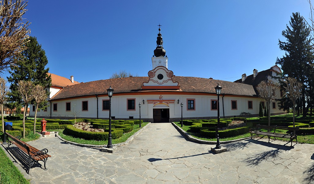 Panorama of Bođani monastery